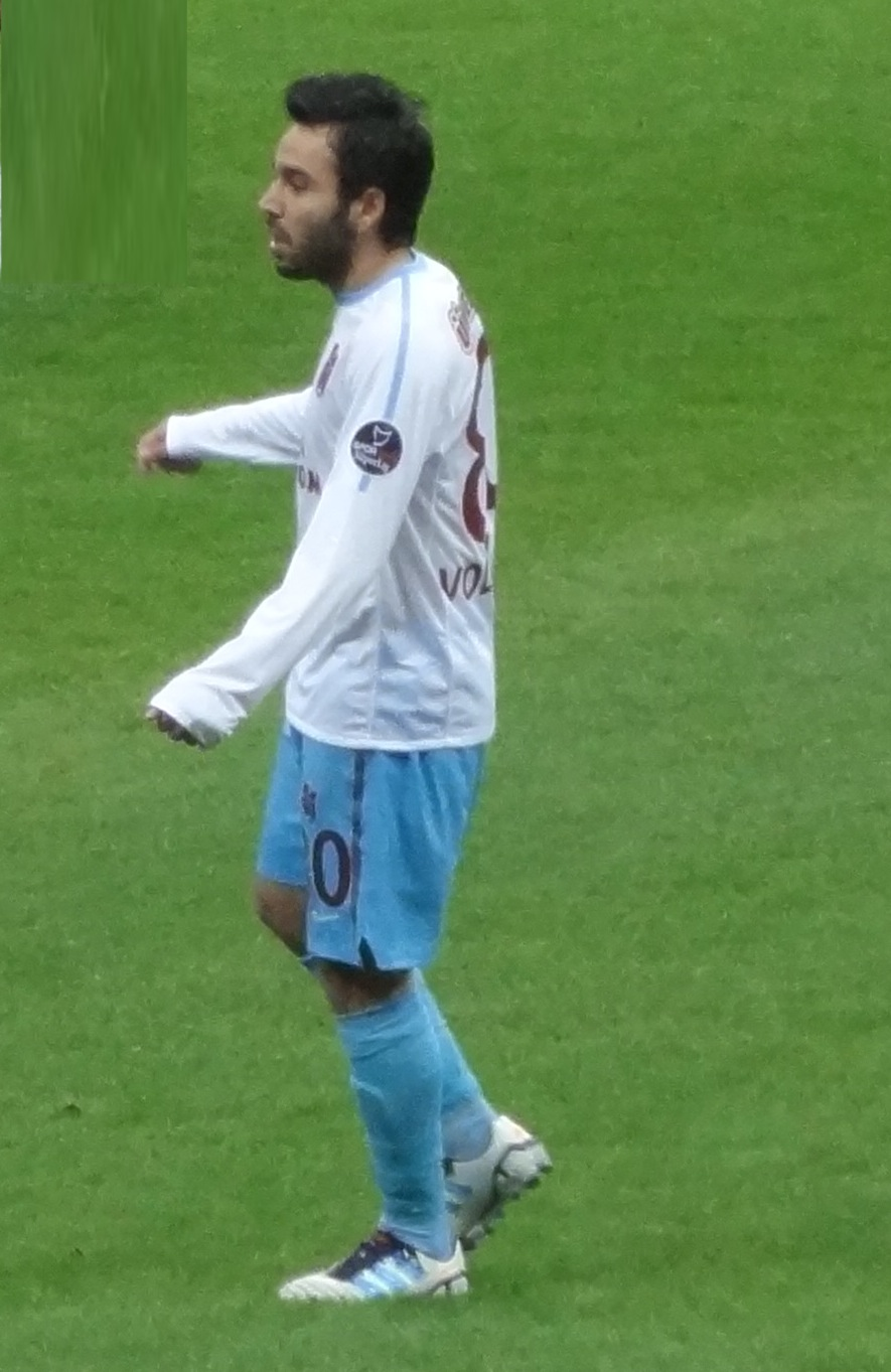 Volkan playing for Trabzonspor against GS